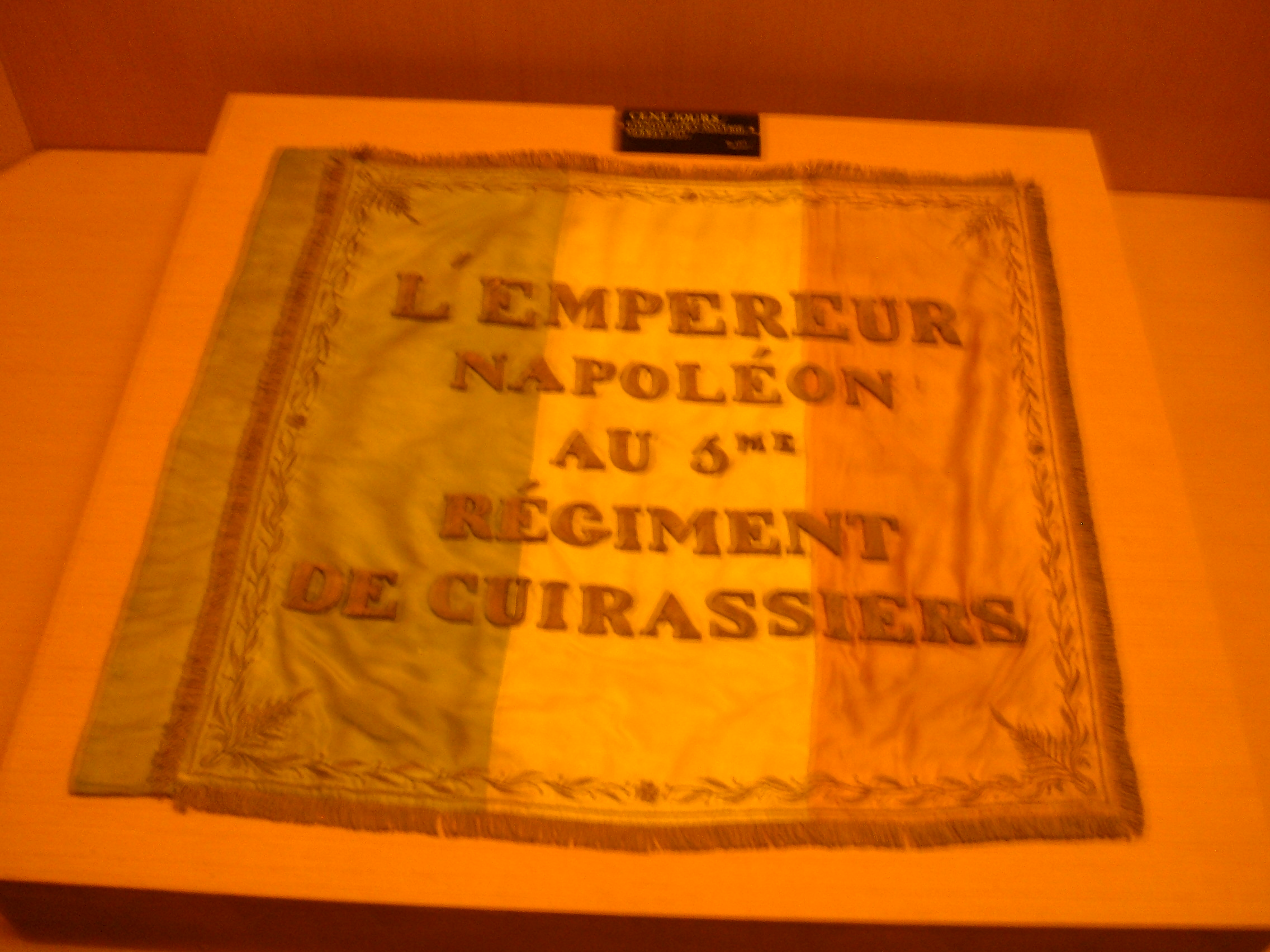 A standard of the 5th Cuirassier Regiment, Grande Armée 1815, on display at the Musée de l'Armée in Paris, France.